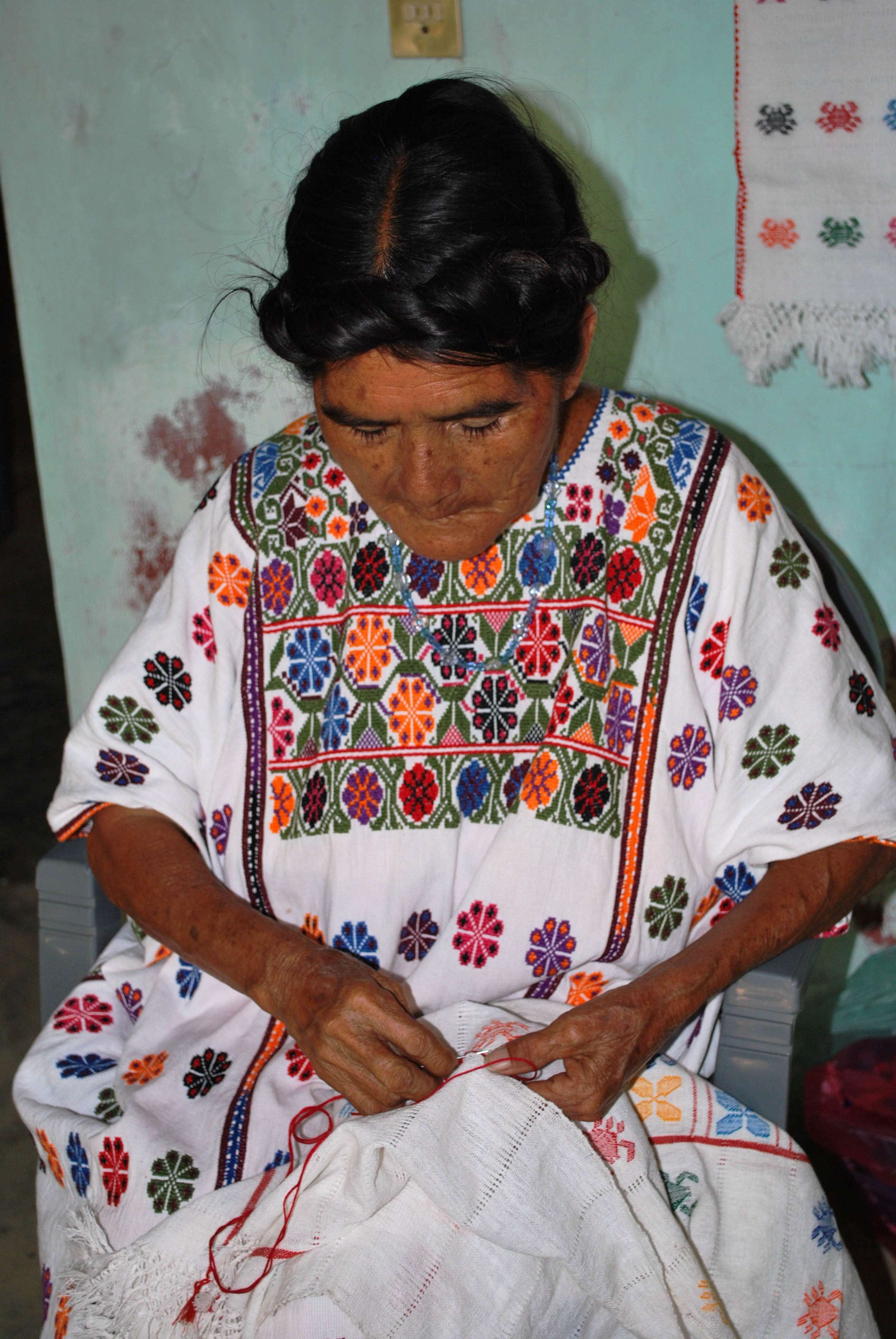 Joining edges of woven cloth together to make a huipil in Xochistlahuaca, Guerrero